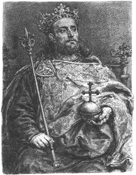 Wenceslaus II of Bohemia: drawing by Jan Matejko